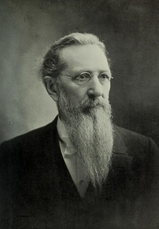 Picture of Joseph F. Smith